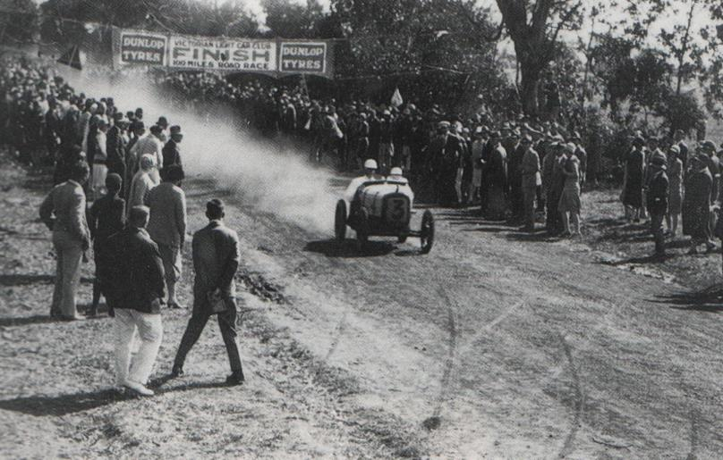 The Austin 7 of Arthur Waite contesting the 1928 100 Miles Road Race at the Phillip Island road circuit in Victoria, Australia. The race, which was later to be recognised as the first Australian Grand Prix, was won by this entry.